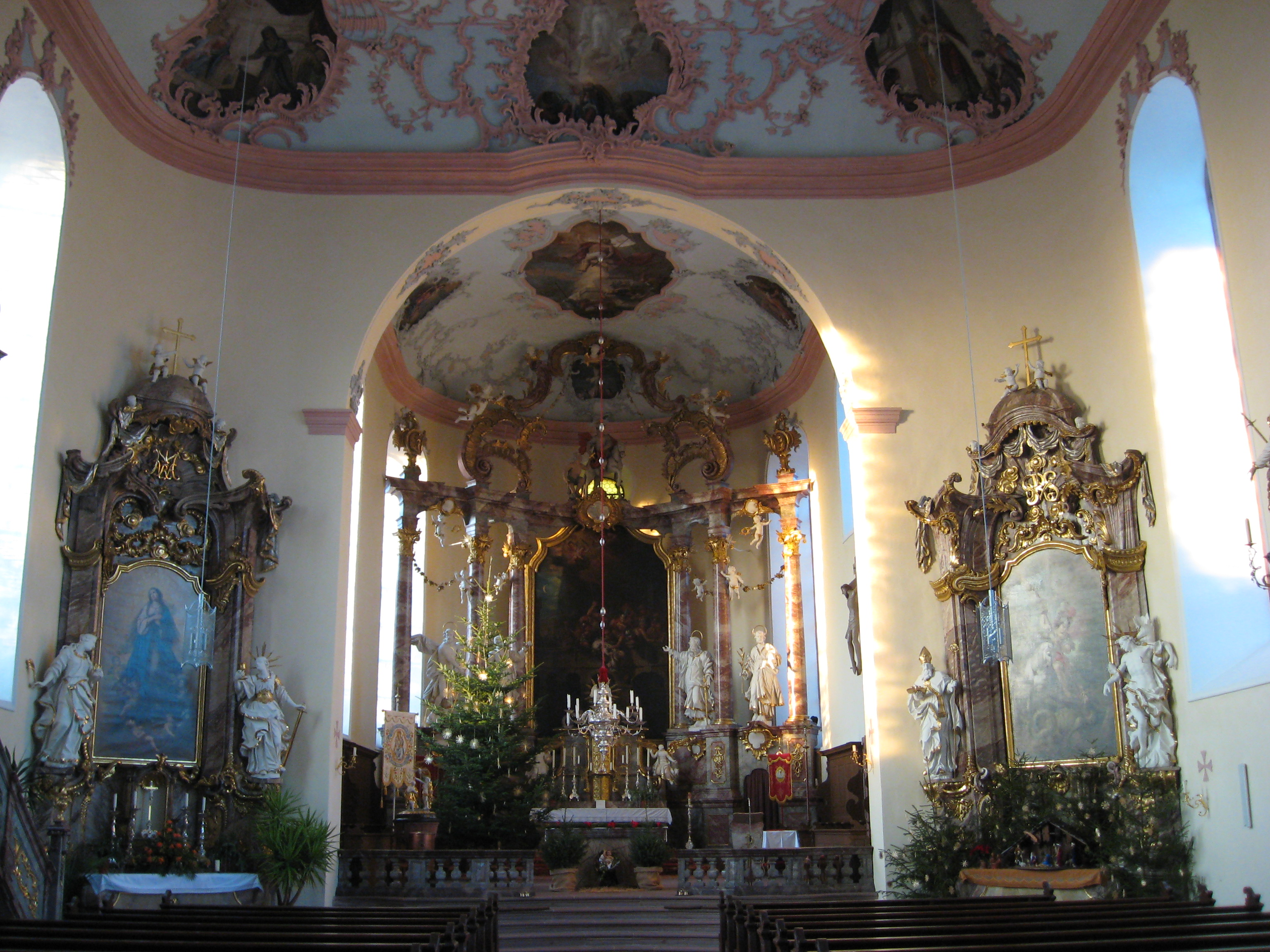 Baroque Church in Königheim, Germany